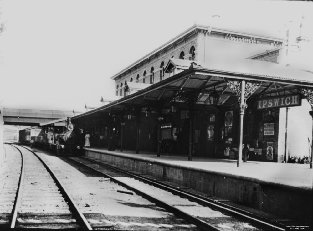 Platform of the Ipswich Railway Station, Queensland, 1890-1900 Passenger train at the Ipswich railway station platform. The station building is of a block sandstone construction. Large arches form openings to the windows with heavy ornamentaion in the mouldings on the building. A corrugated iron roof covers the platform and is supported by posts with iron frieze-work at the top.